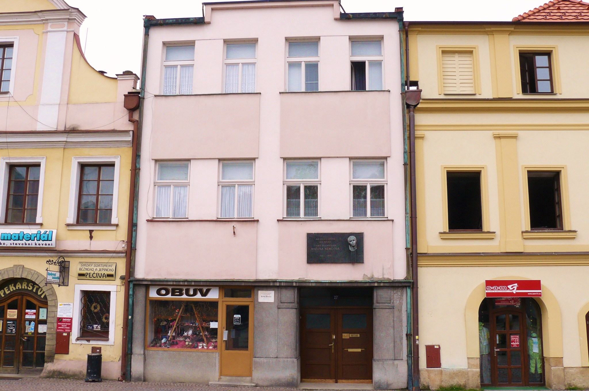 Bozena Nemcova House in Litomysl.